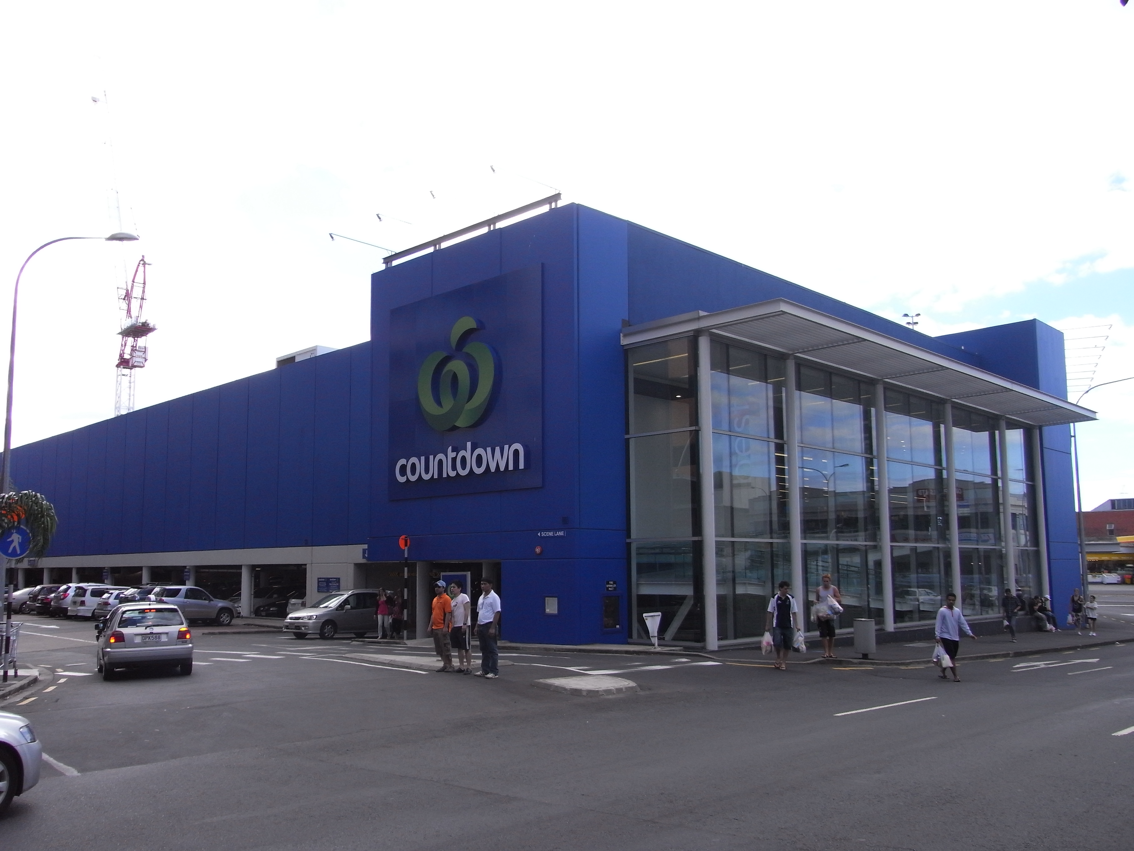 Countdown supermarket, 76 Quay Street, Auckland Central, New Zealand. Shot taken from the middle of the road, Tangihua Street. This supermarket used to be a Foodtown, but was rebranded in 2009; see File:Foodtown, Auckland Central.JPG for comparison.